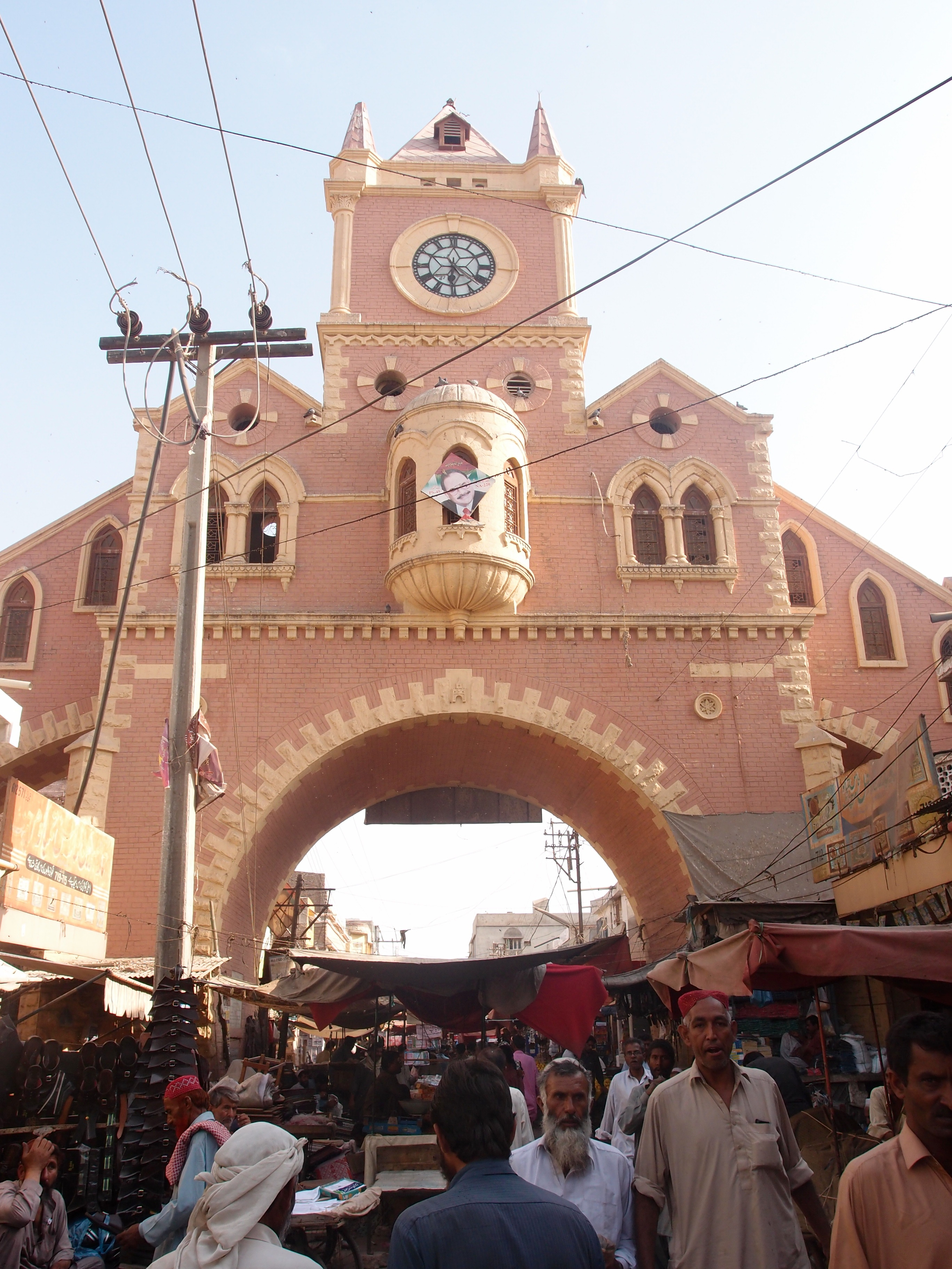 Navalrai Market Clock Tower view